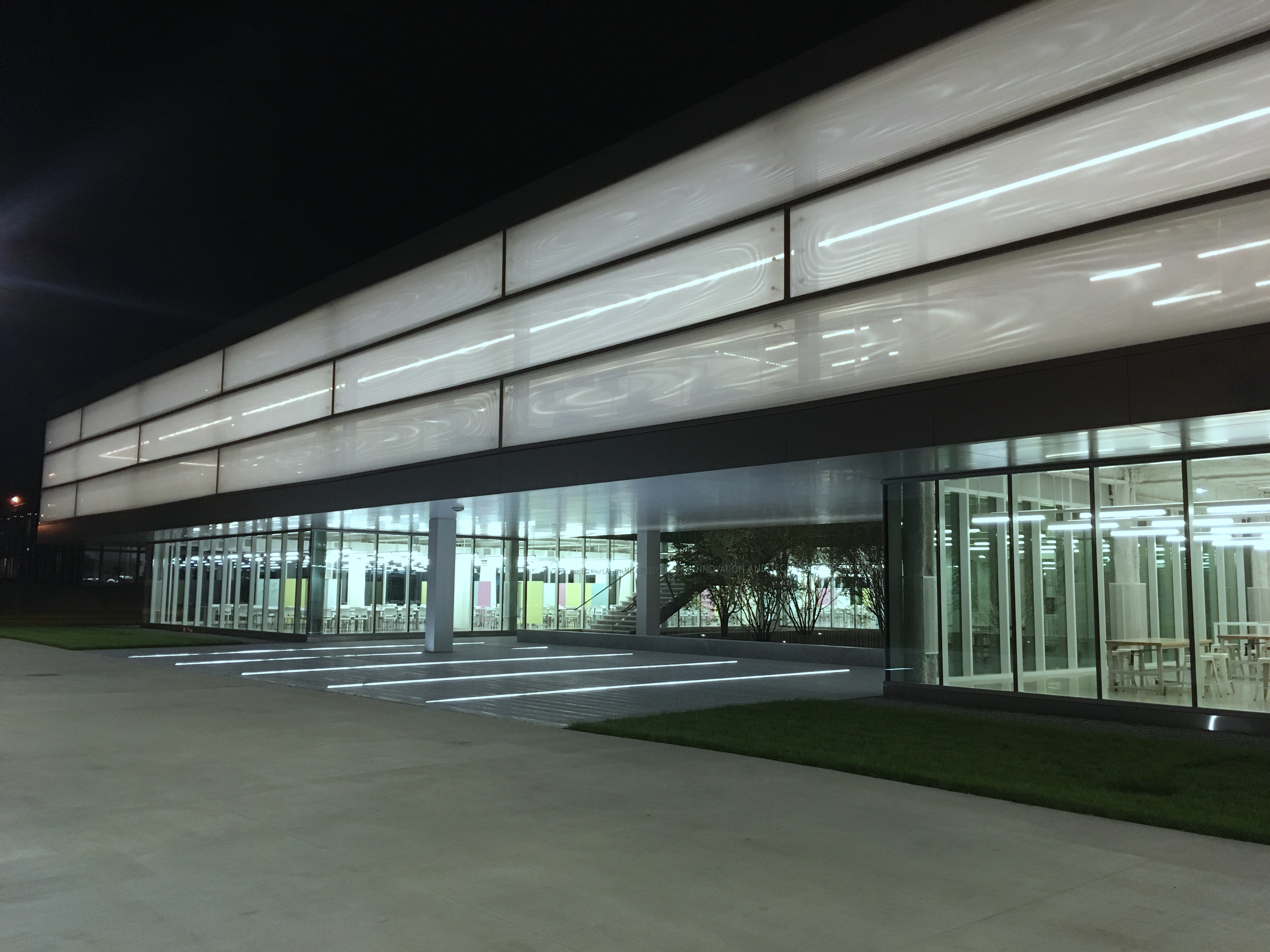 A view of the main entrance of Illinois Institute of Technology's new machine shop and project workspace.